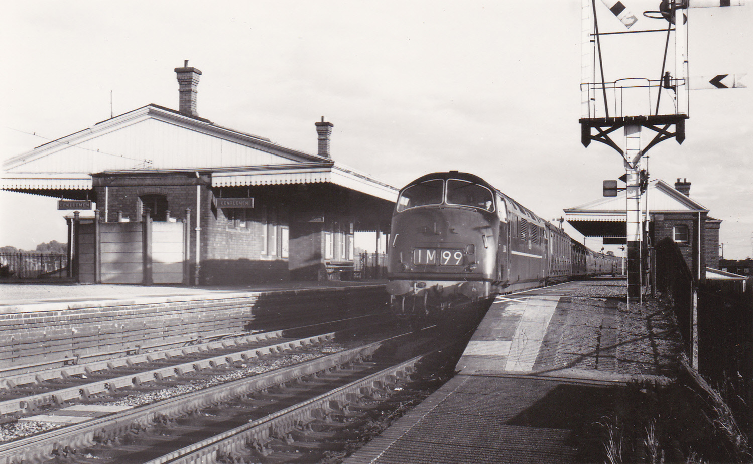 Warship D854 Tiger at Filton Junction, 19:45hrs, 22nd June1962.